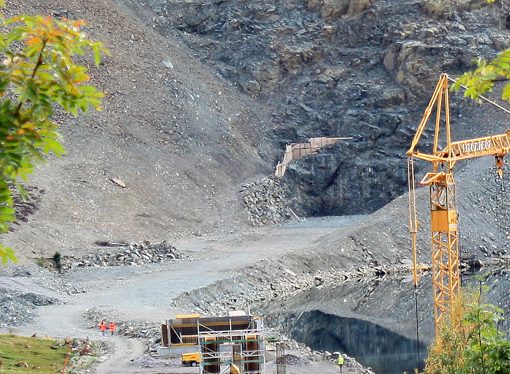 The northwestern entry point of the Kåfjord Tunnel as of August 2011. Construction of the Kåfjord Bridge can be seen in the foreground.